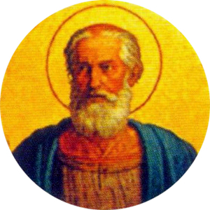 Portait of Pope Anastasius I in the Basilica of Saint Paul Outside the Walls, Rome